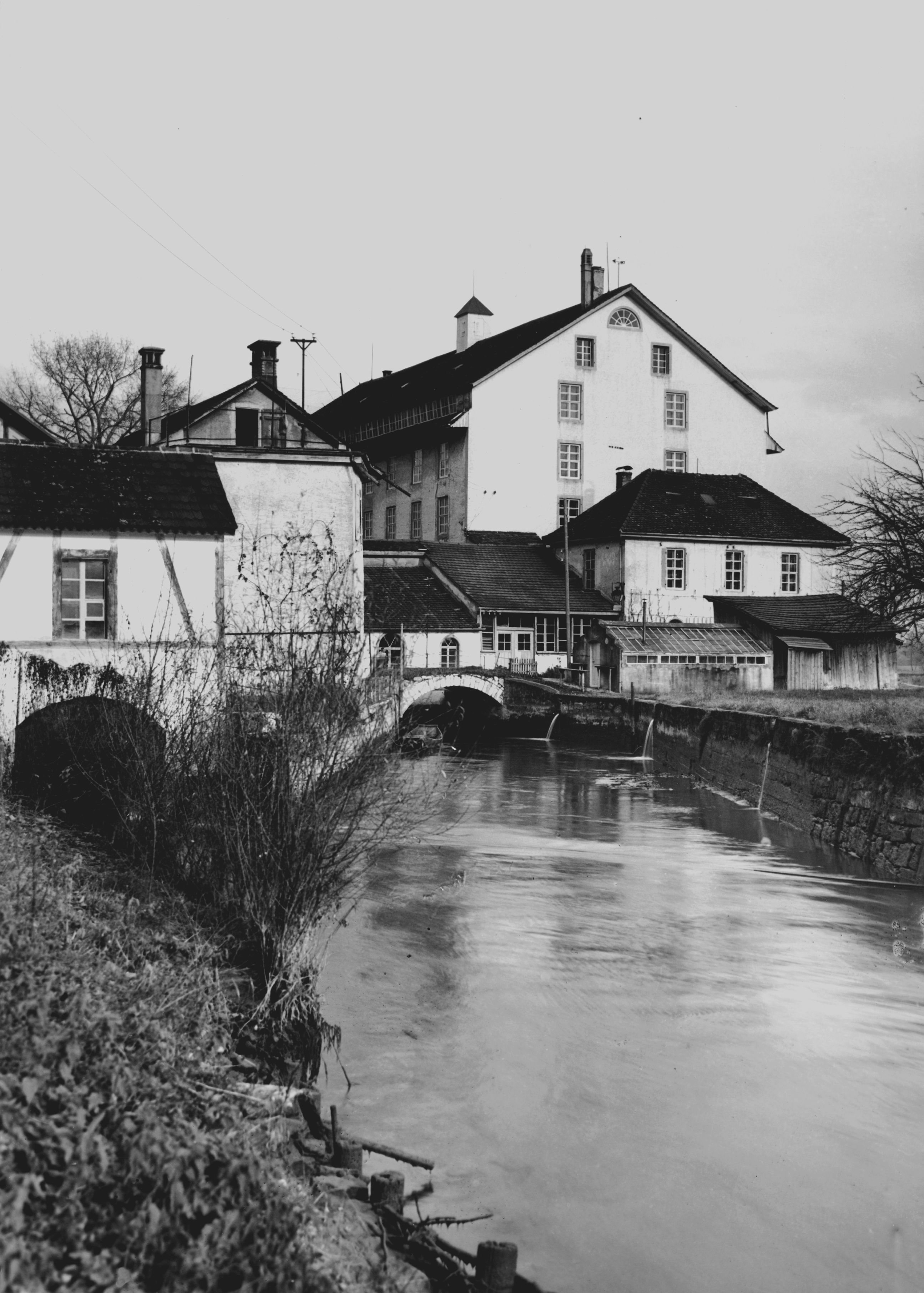 Ancient factory of Chocolat Frey AG